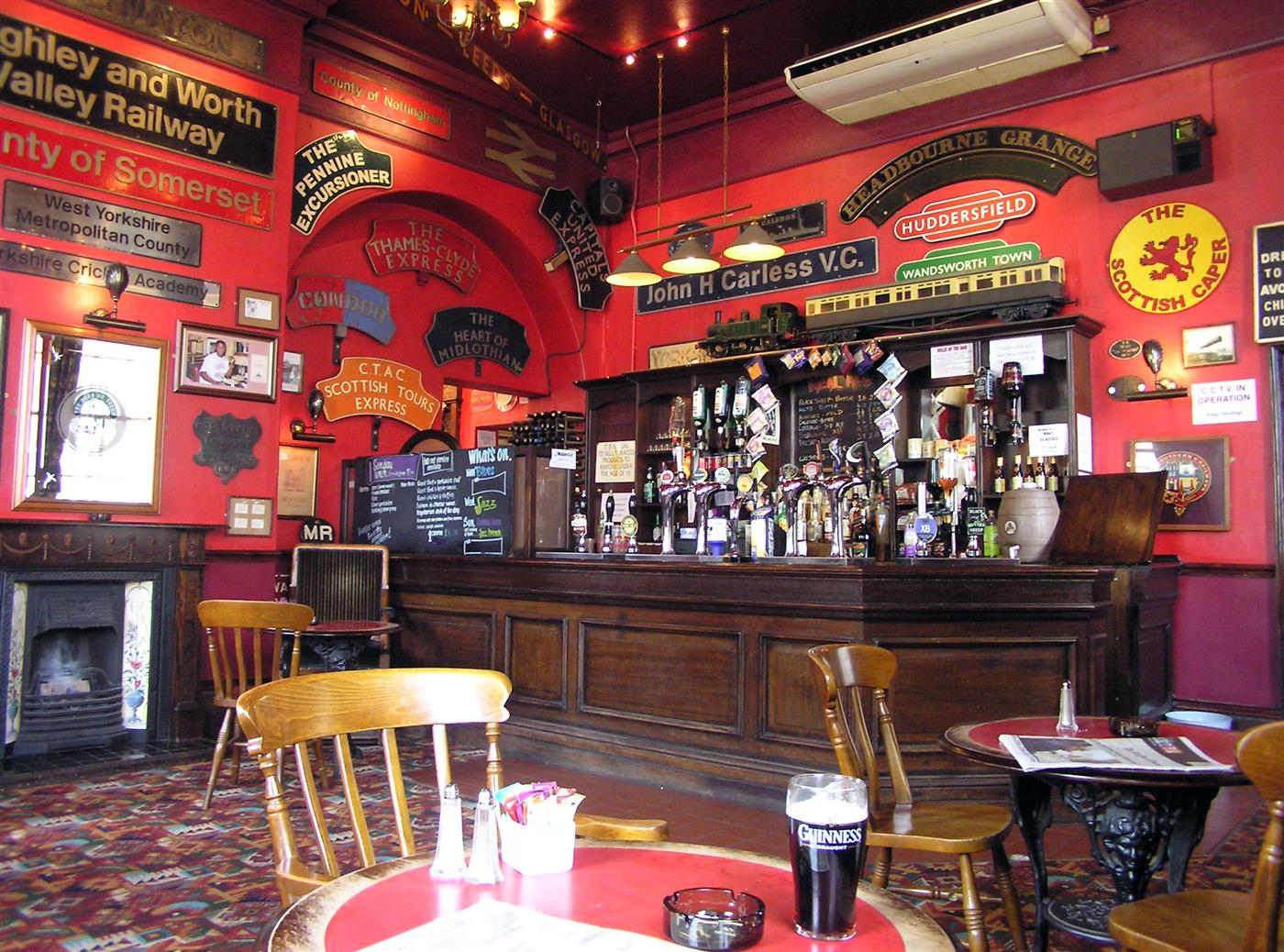 View inside one of the bars in the 'Head of Steam' Public Bar at Huddersfield Railway Station, prior to refurbishment by new owners, plus a pint of Dark Mild taken by me at the same time!